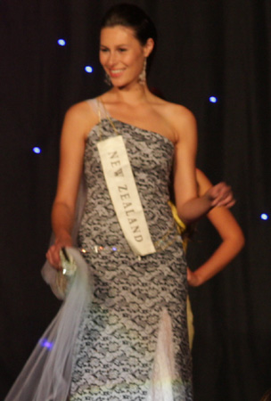 Miss New Zealand 2008 Kahurangi Taylor during Miss World 08